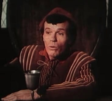 Walter Burke in Beauty and the Beast - trailer (cropped screenshot)